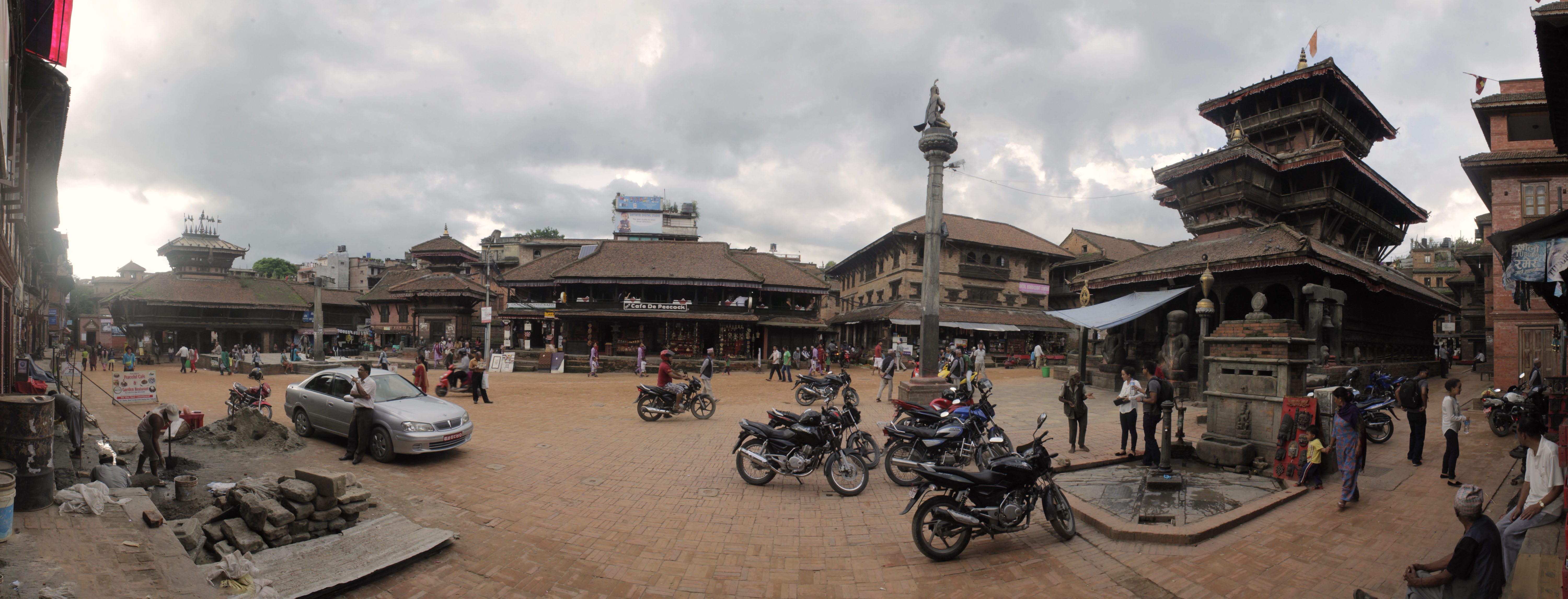 A panoramic view of the Bhaktapur Durbar Square.